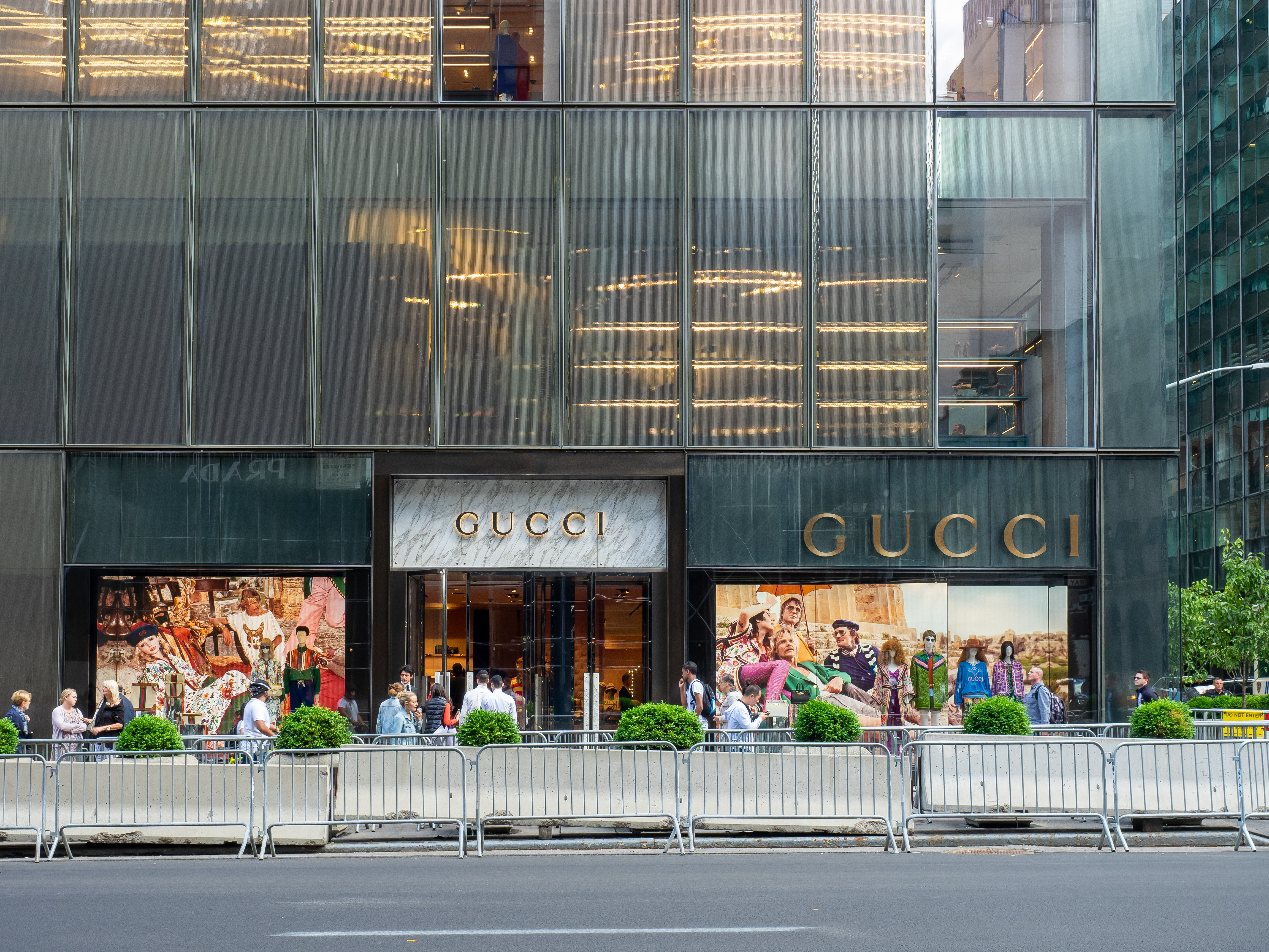 5th Ave, Midtown, NYC